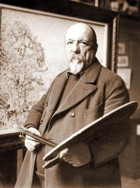 Photo of Paul Signac